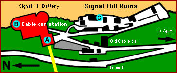 Signal Hill Battery and Cable Car map from